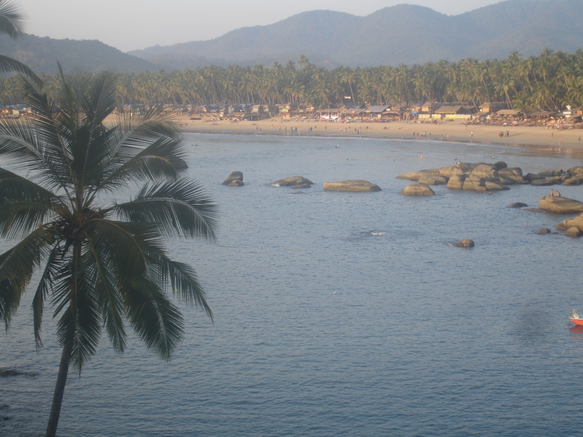 Goa.in Palolem Beach